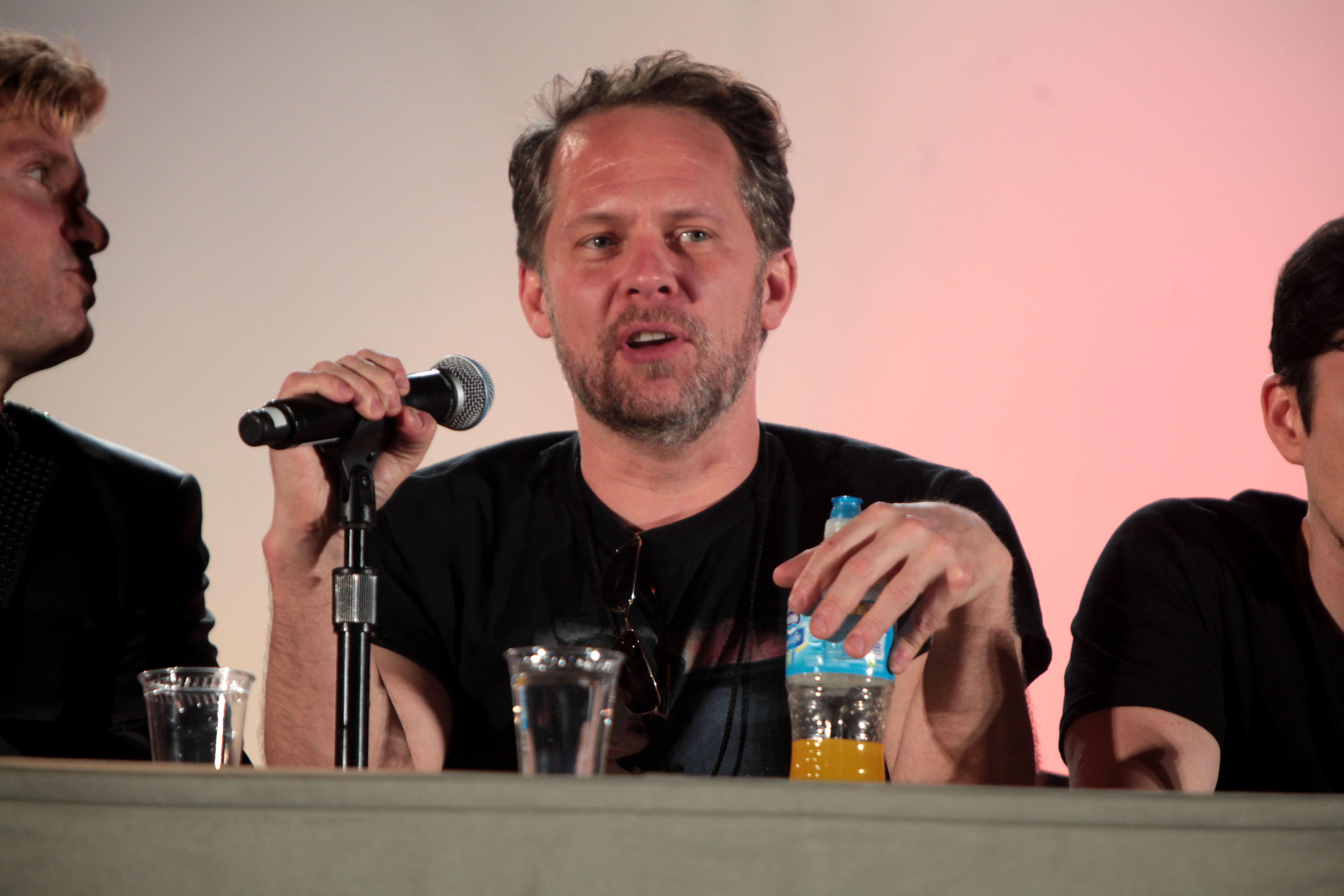 Chuck Huber speaking at the 2015 Phoenix Comicon at the Phoenix Convention Center in Phoenix, Arizona.